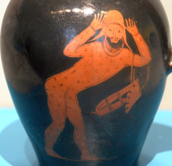 Eurymedon vase ca. 468 BCE